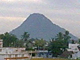 hills in komarapalayam.